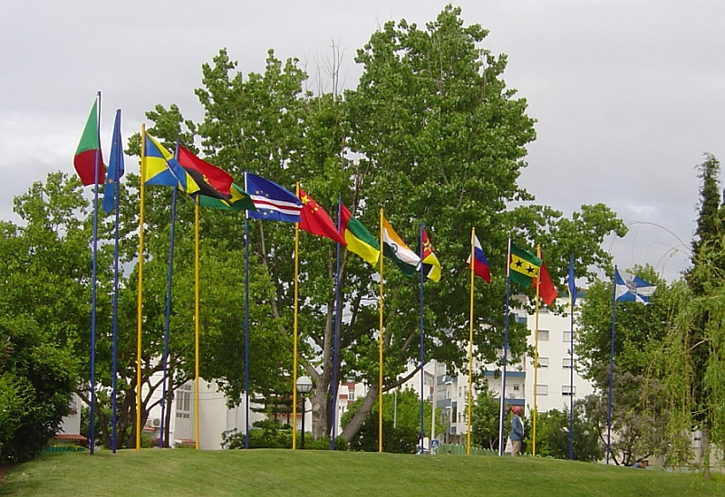 Municipal Day of the Immigrant's Community, Seixal, Portugal. Flags of the countries of origin